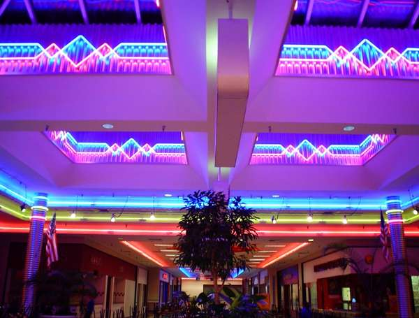 Neon ceiling of now-demolished South Hills Mall in Poughkeepsie, NY.